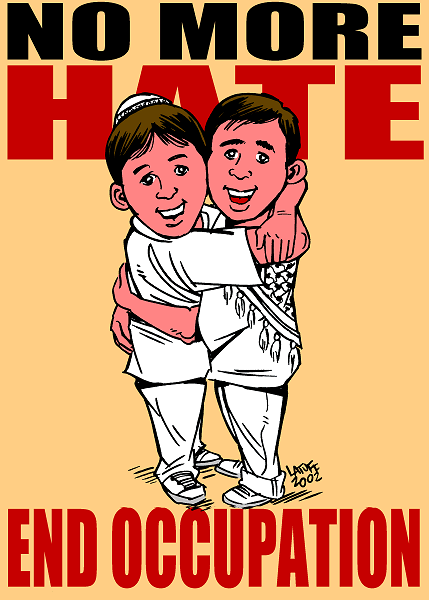 No more hate, end occupation